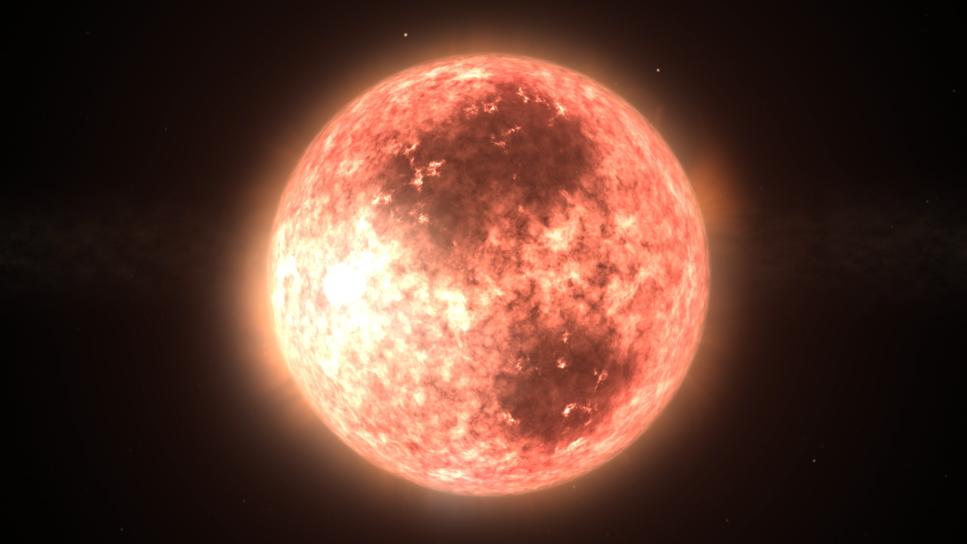 Illustration depicting AU Mic, an M-type red dwarf star less than 0.6% the age of our Sun. The dark areas represent huge sunspot-like regions that helped complicate the search for planets. Credit: NASA's Goddard Space Flight Center/Chris Smith (USRA)